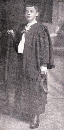 Thirteen year old Jan Hofmeyr has already matriculated and is studying for a B.A. degree in Arts at the University of Cape Town.